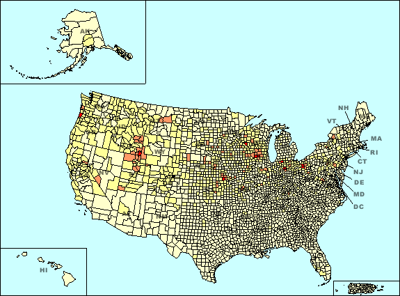 swiss ancestry in the us in the year 2000